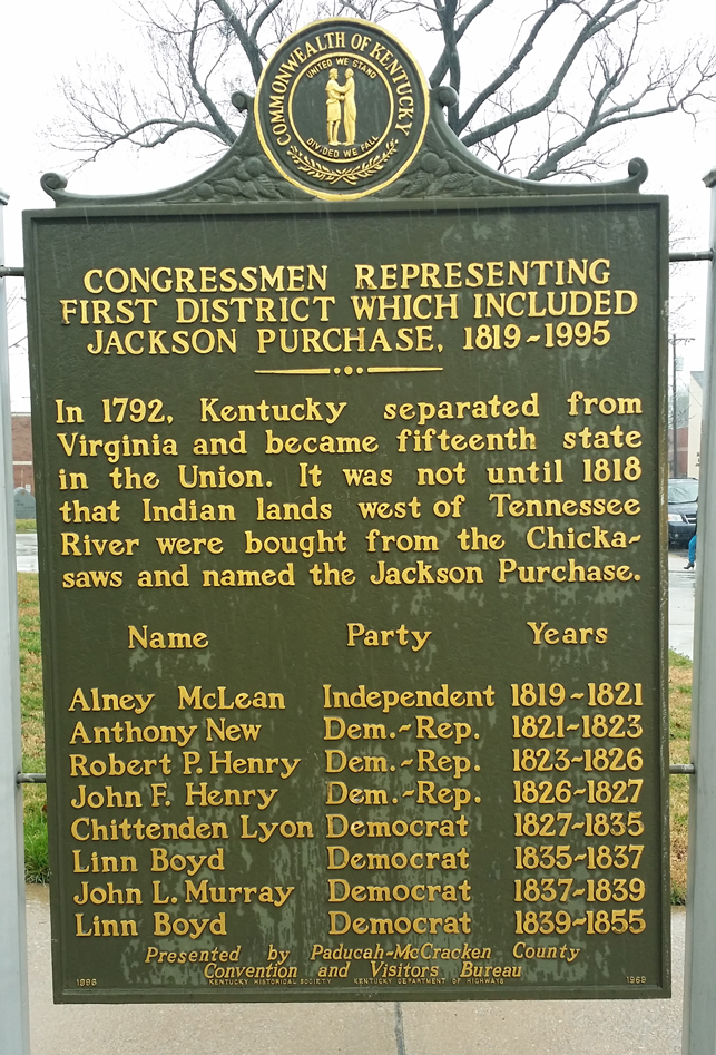 Sign outside the McCracken County, Kentucky Courthouse in Paducah, Kentucky commemorating those who represented the Jackson Purchase (U.S. historical region) to the United States Congress.